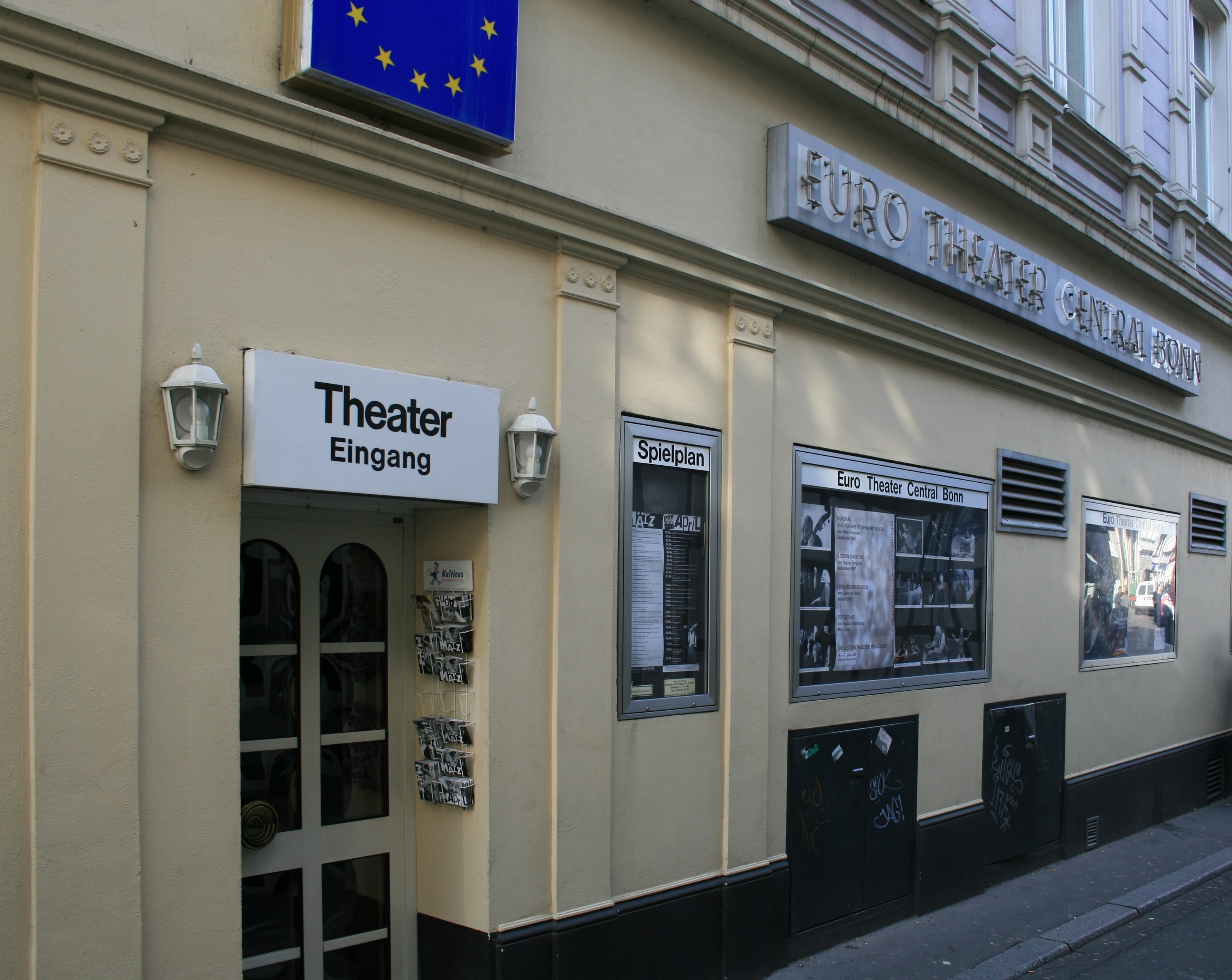 Germany, Bonn: Euro Theater Central Bonn (private one-room-theatre)